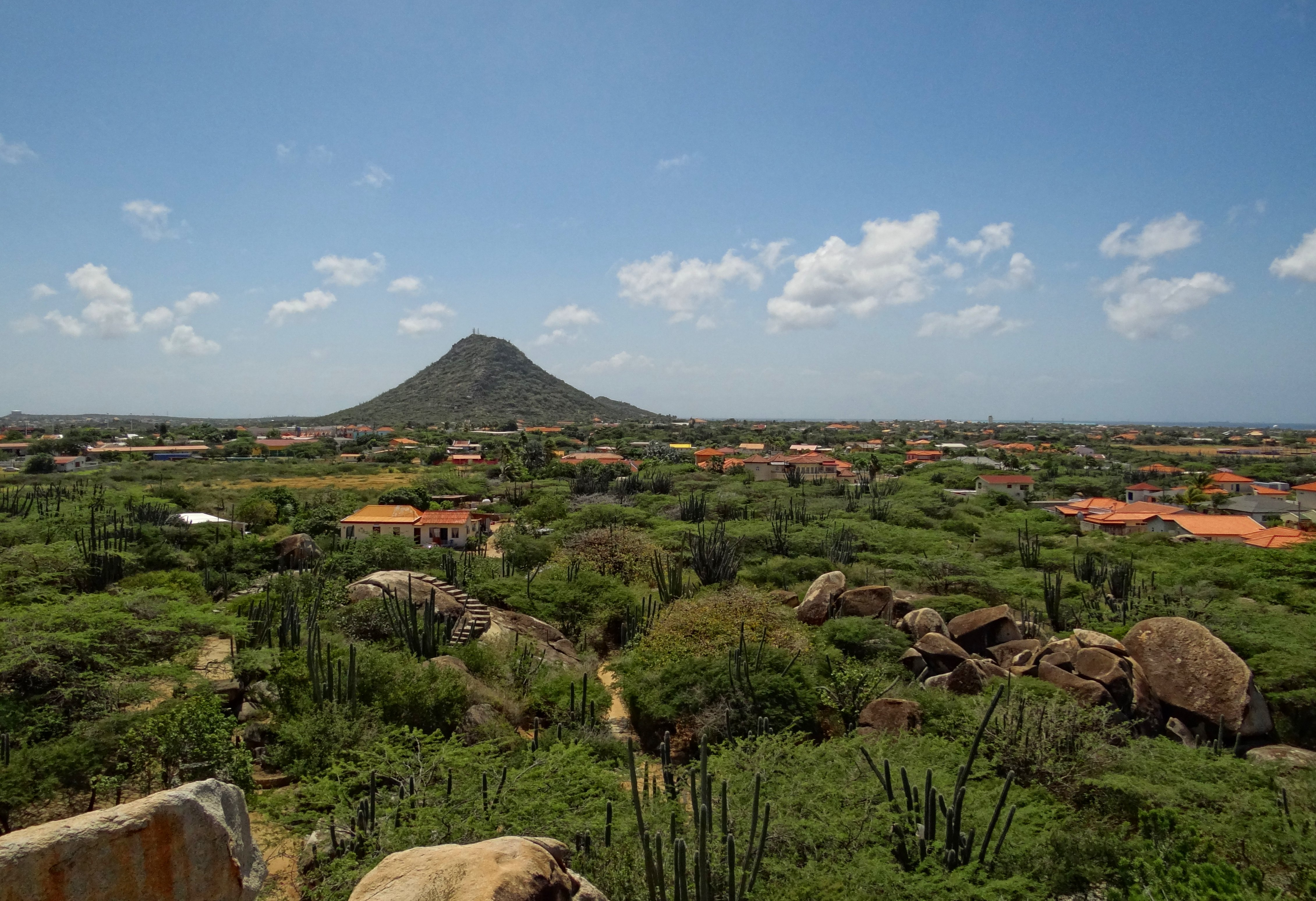 The hill of Hooiberg on central Aruba photographed from the Casibari rocks about 1.5 kilometers north of the hill.